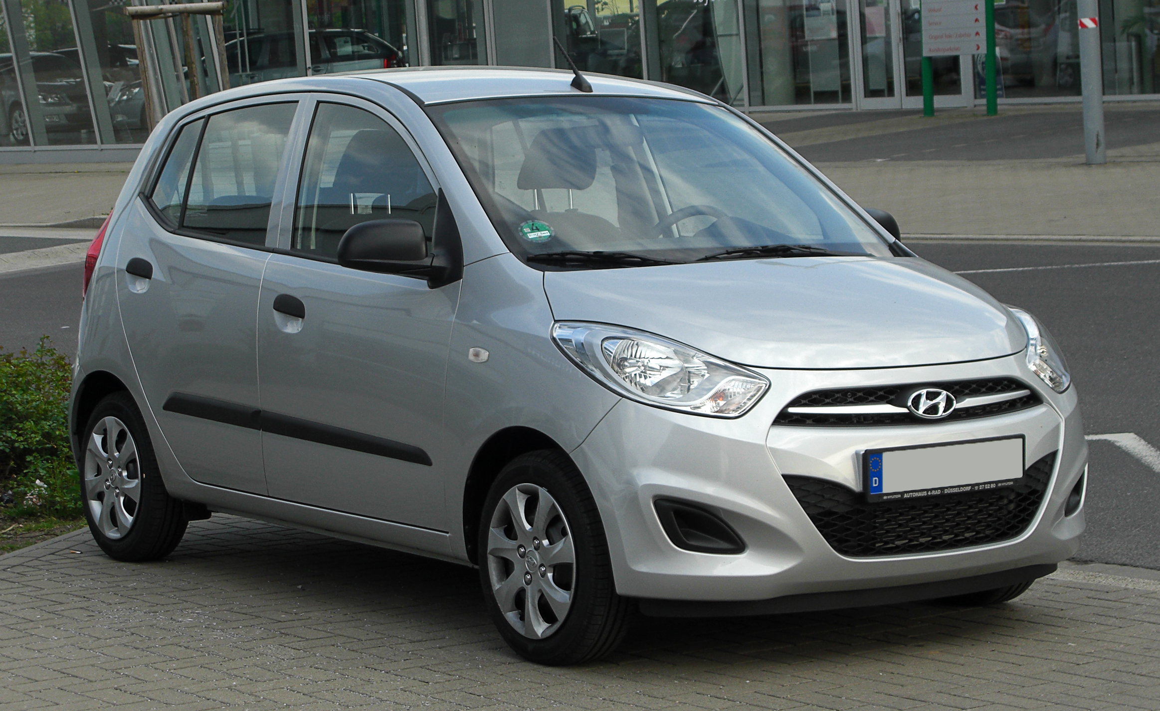 Hyundai i10 1.1 Classic FIFA WM Edition (Facelift)